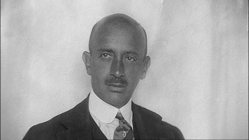 photography of Dr. Max James Emden (1874-1940)